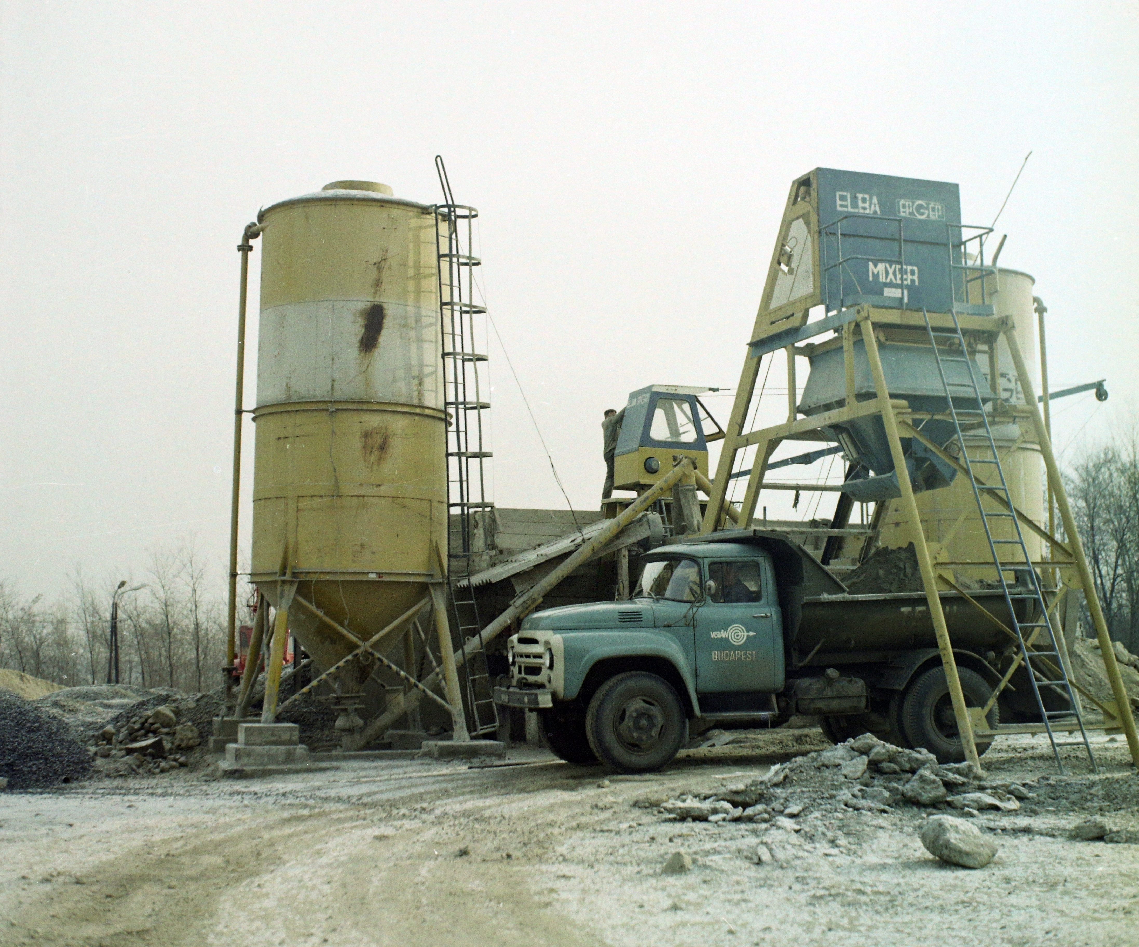 Location: Hungary Tags: colorful, Volán organisation